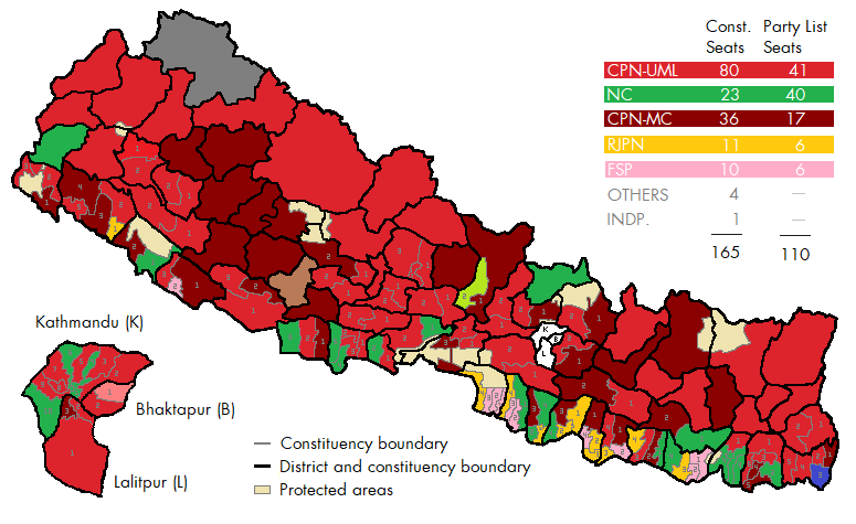 map finale